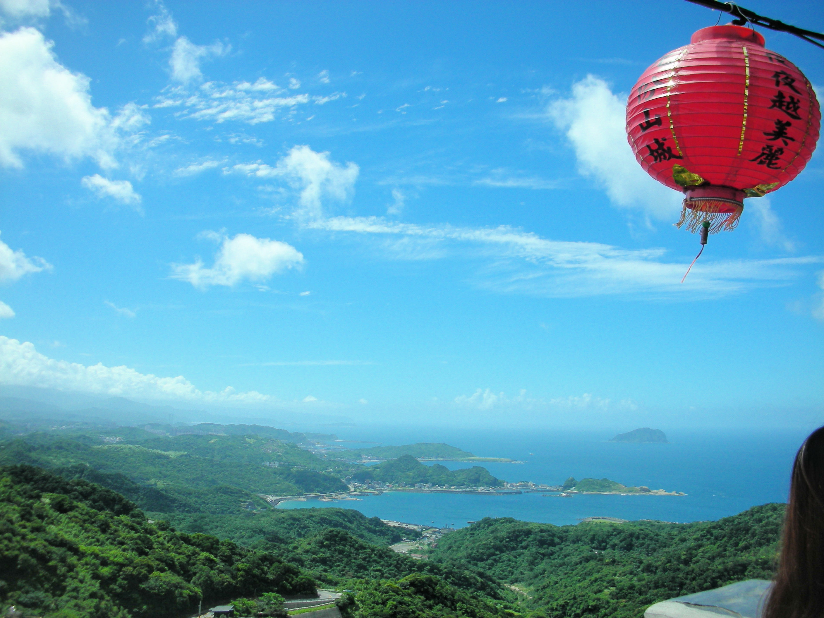 Jioufen, New Taipei City